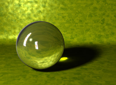 Computer generated image showing caustic lighting. HDRI reflections are visible on the crystal ball. This image was created to be used in a wikipedia article.